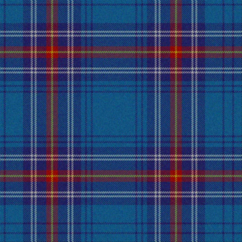 Tartan 2389, the official tartan of Tartan Army, the fan club of the Scottish National Football Team. Colours used are Balmoral Blue Torea Bay with Freedom Red Gainsboro White Golden Poppy